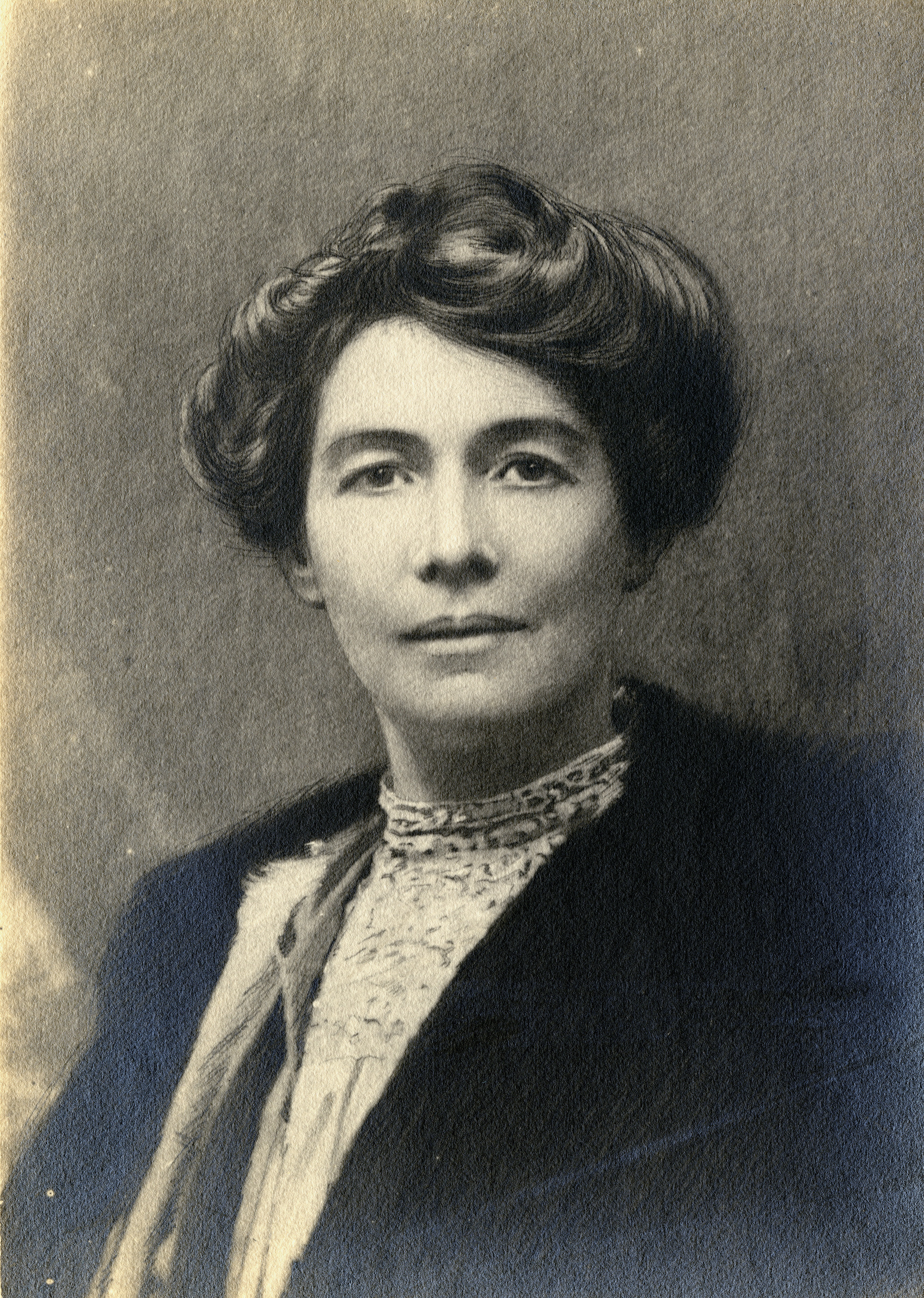 7JCC/O/02/133 Photograph, printed, paper, monochrome, reproduction of a [painted] portrait of Emmeline Pethick Lawrence, head and shoulders, front profile